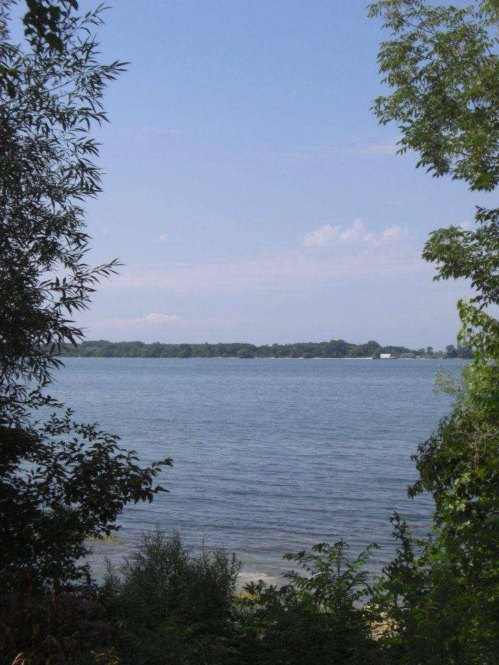 Photograph of North Bass Island "strategically" taken from the north end of Middle Bass Island.